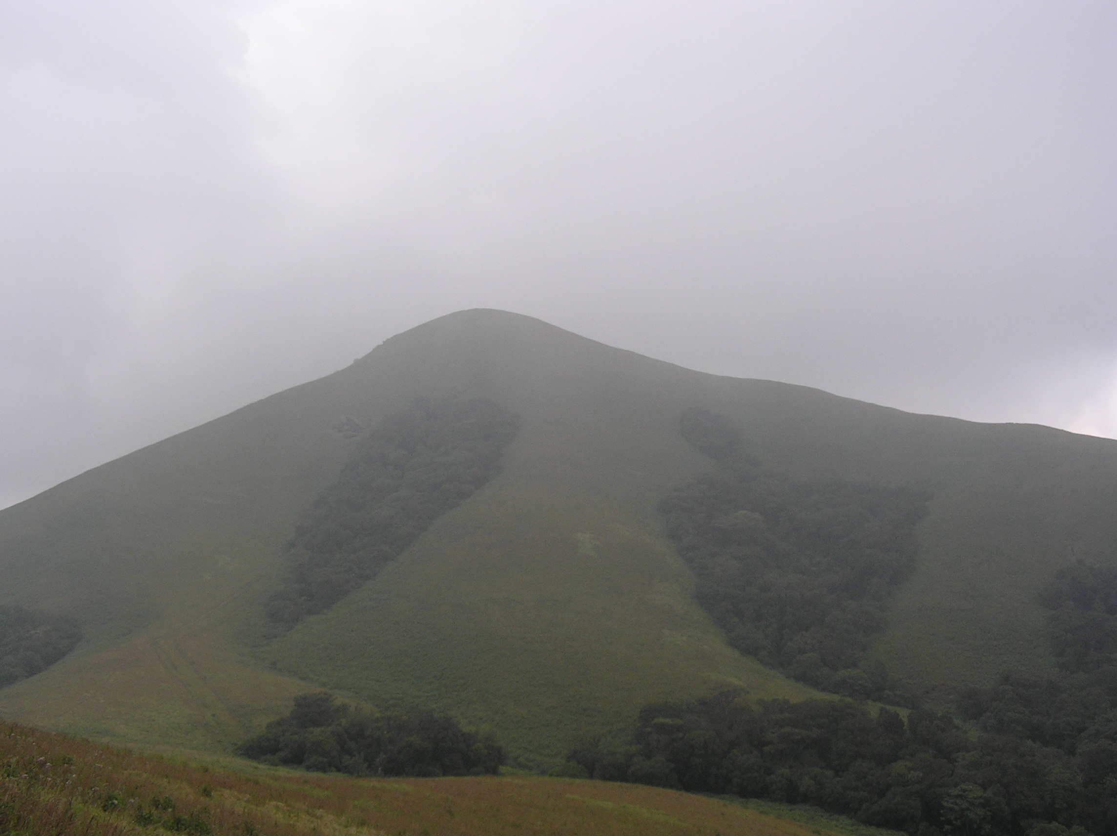 Brahmagiri